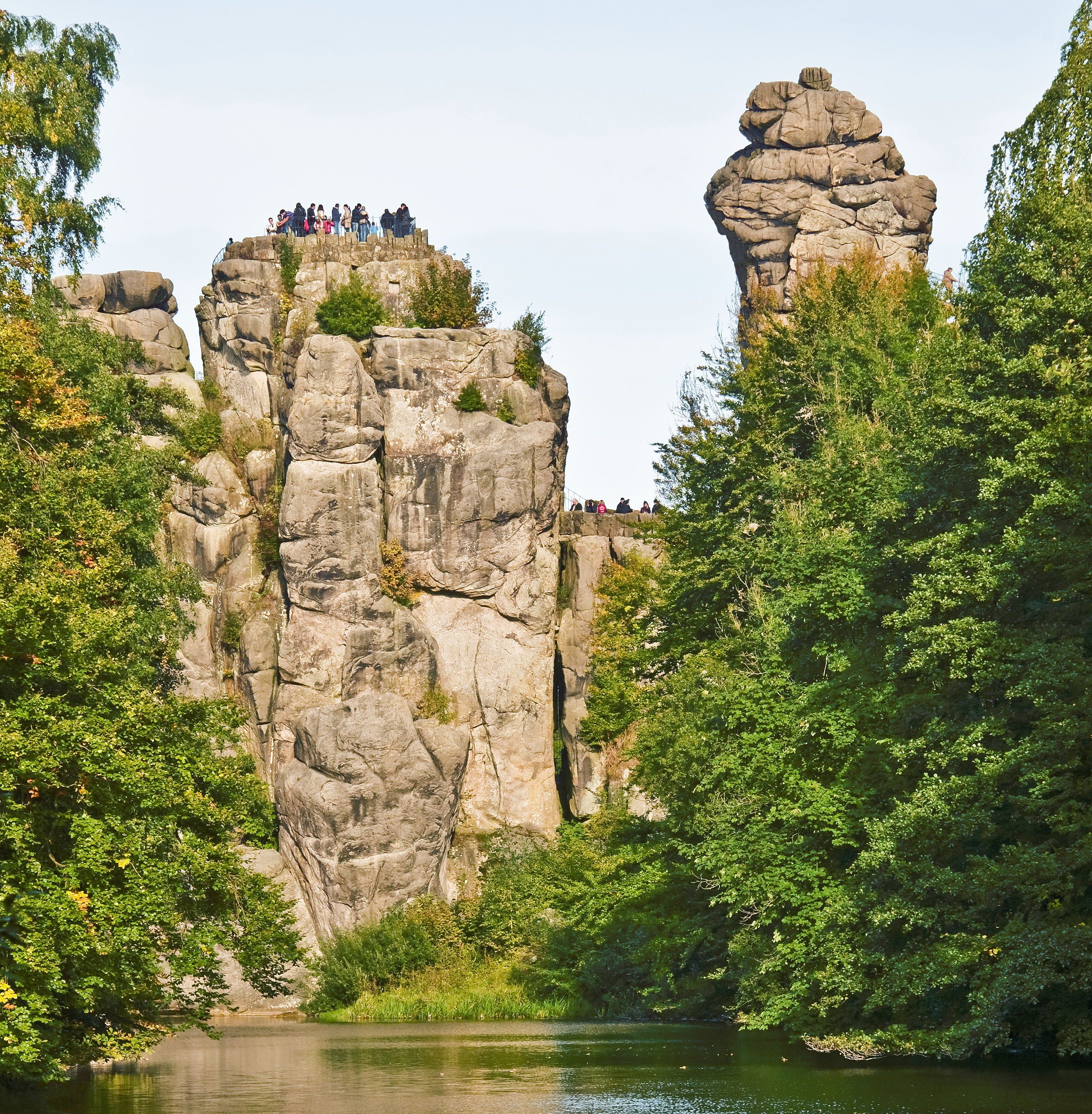 The Externsteine are a distinctive rock formation located in the district of Lippe within the German state of North Rhine-Westphalia, not far from the city of Detmold at Horn-Bad Meinberg. The formation stands beside the Wiembecke-pond and is a tor consisting of several tall, narrow columns of rock which rise abruptly from the surrounding Wiembecke-pond and wooded hills.